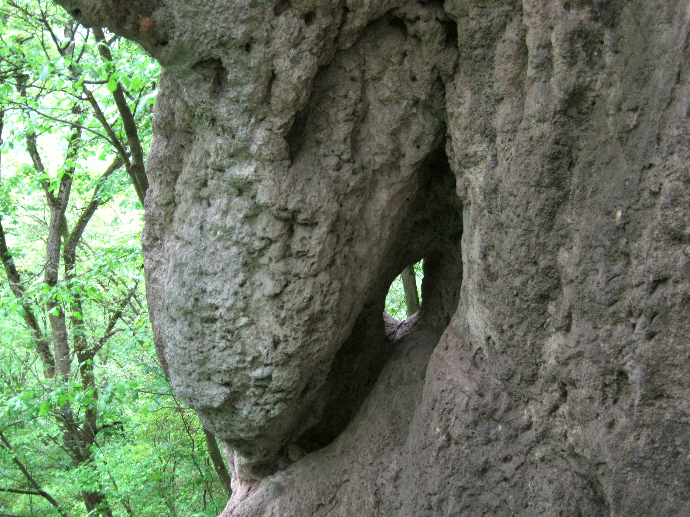 Монастирська травертинова скеля біля с. Сокілець